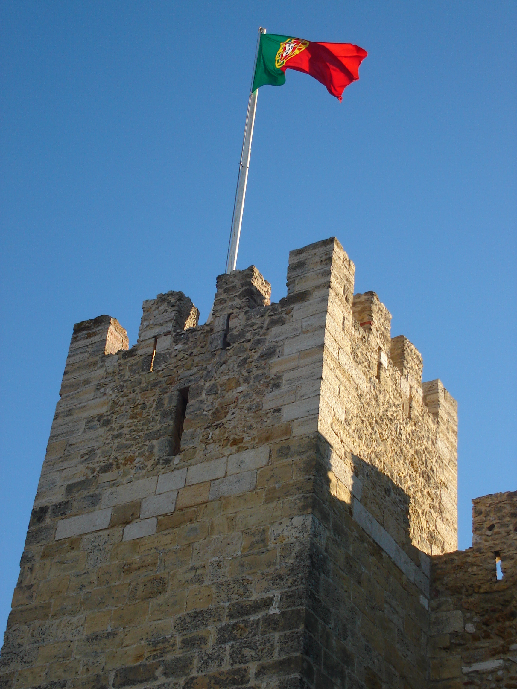 Portuguese flag on one of the towers of Castelo São Jorge in Lisbon, december 2005